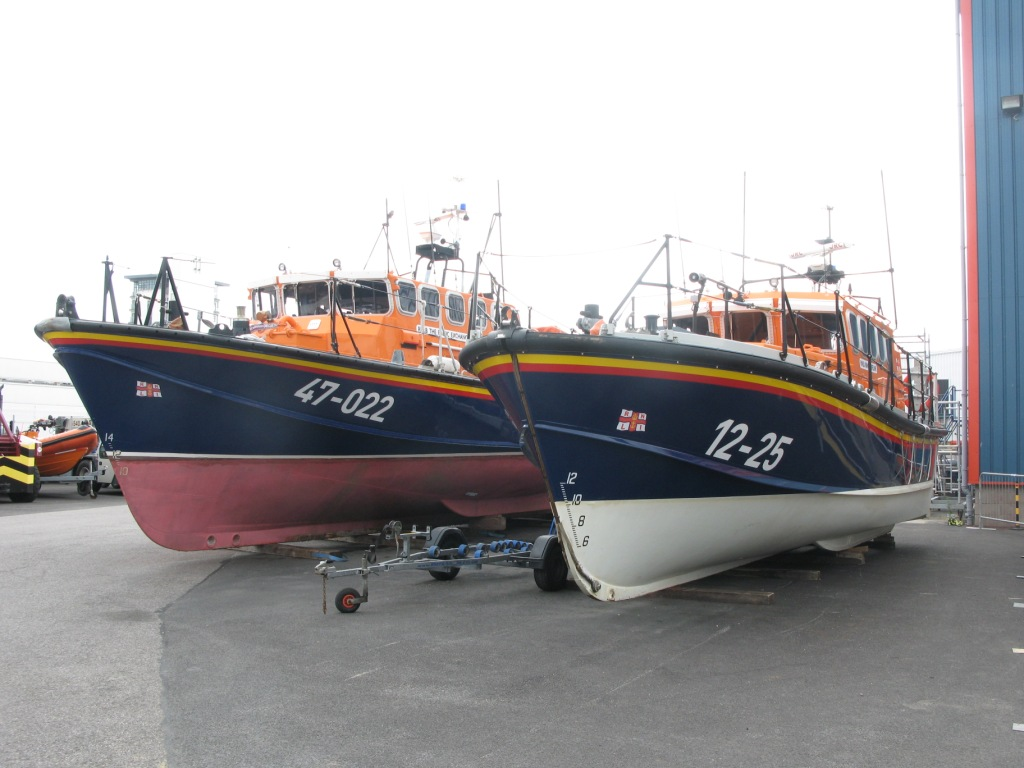 Two of the Royal National Lifeboat Institution's relief fleet at their depot in Poole, Dorset. On the left is Tyne Class 47-022 The Baltic Exchange II, recently released from Salcombe Lifeboat Station in Devon by a new Tamar Class boat. On the right is Mersey Class 12-25 Bingo Lifeline.